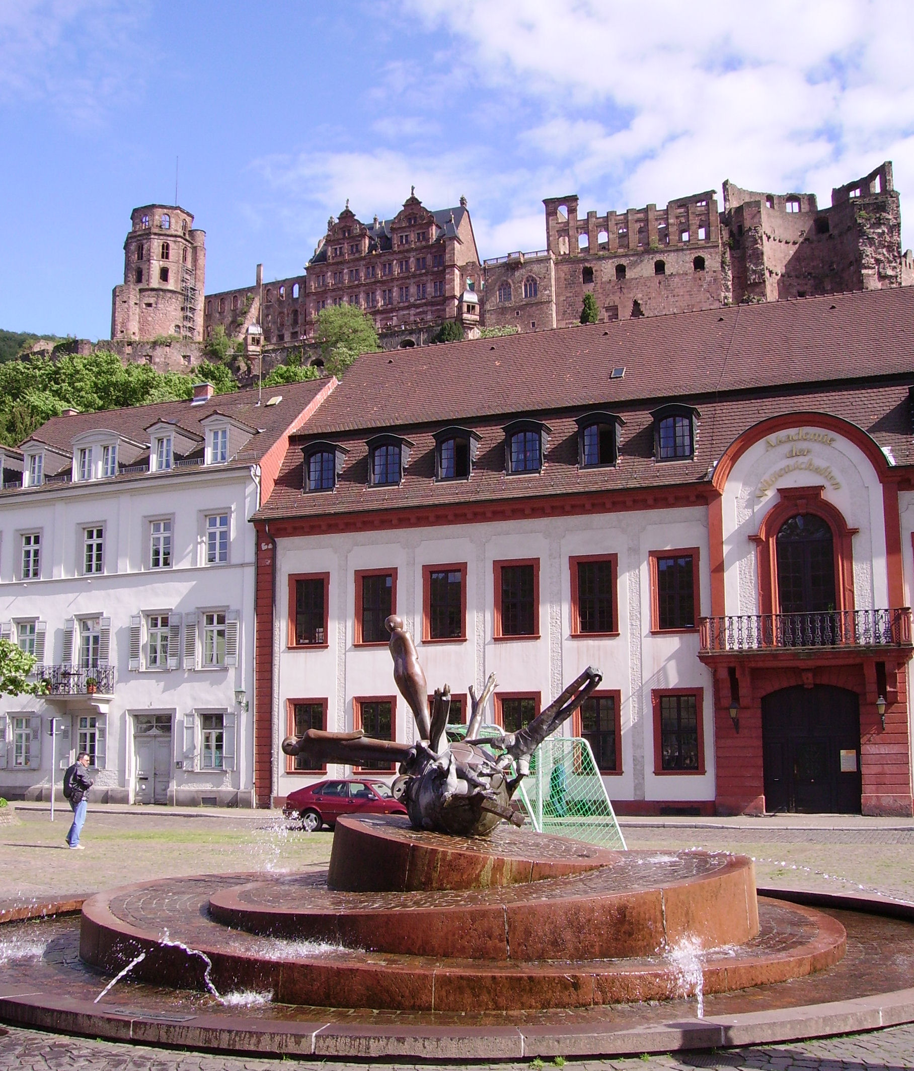 views of Heidelberg, Germany